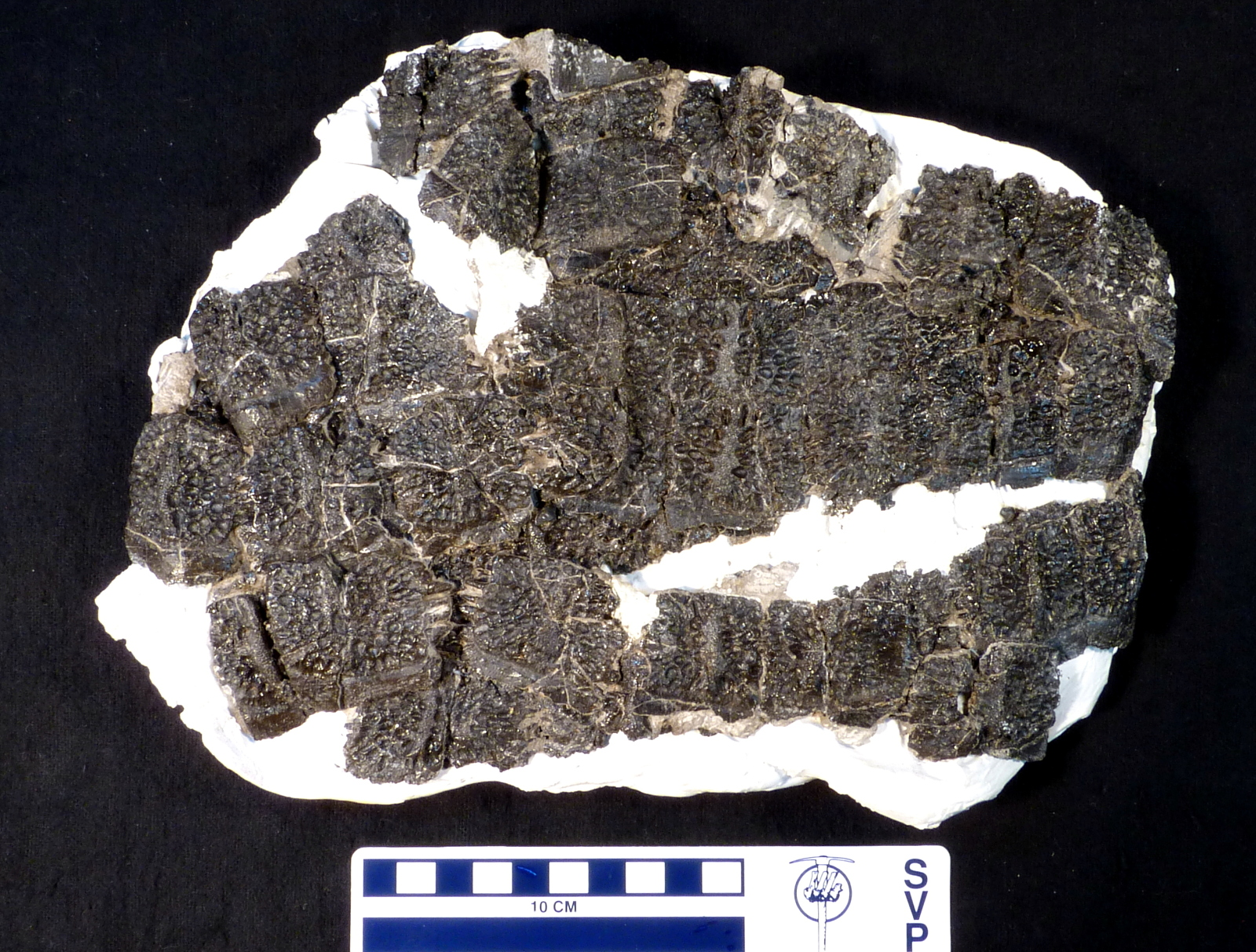 An articulated carapace of dorsal osteoderms belonging to USNM 244214, the holotype of Doswellia kaltenbachi